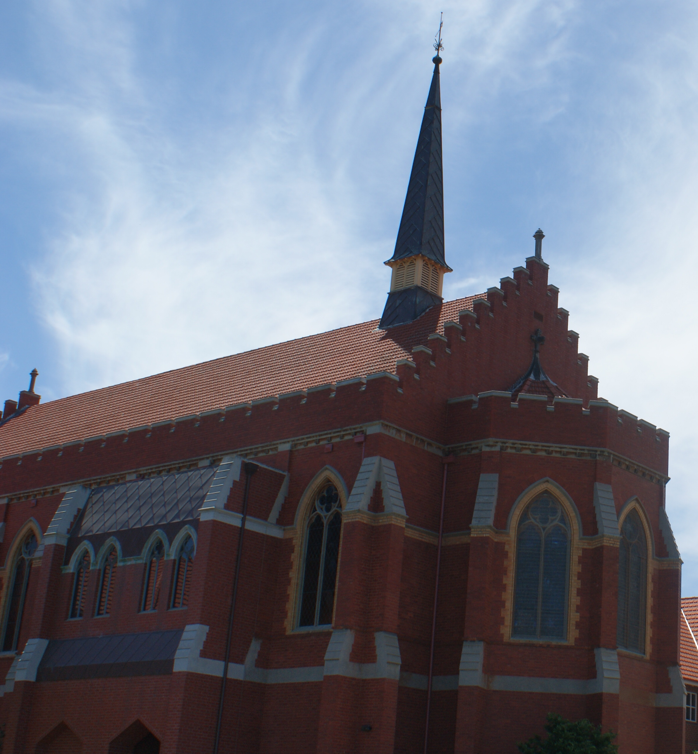 The flèche (spire) of the Memorial Hall at Scotch College Melbourne